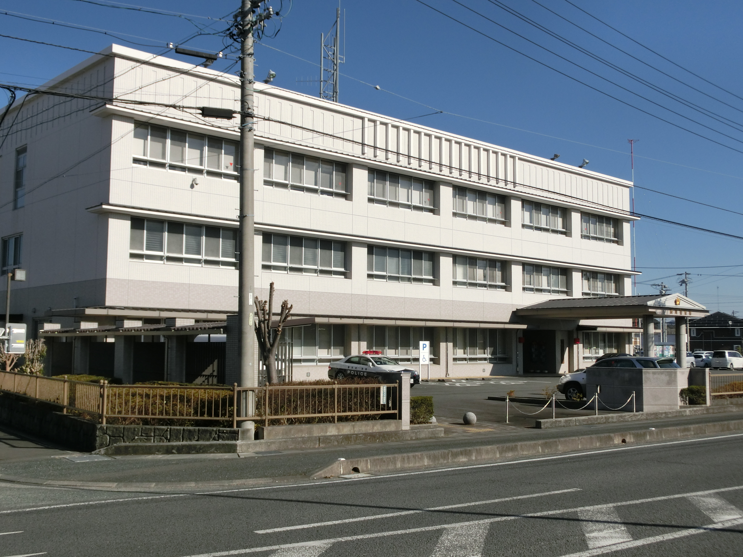 Kakegawa Police Station